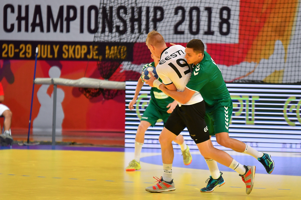 M20 EHF Championship 2018 in Skopje, Macedonia